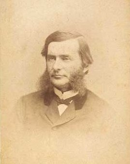 Danish politician, Mayor of Stubbekøbing, MP, Vilhelm Michael Christian Oxenbøll (1823-1898)